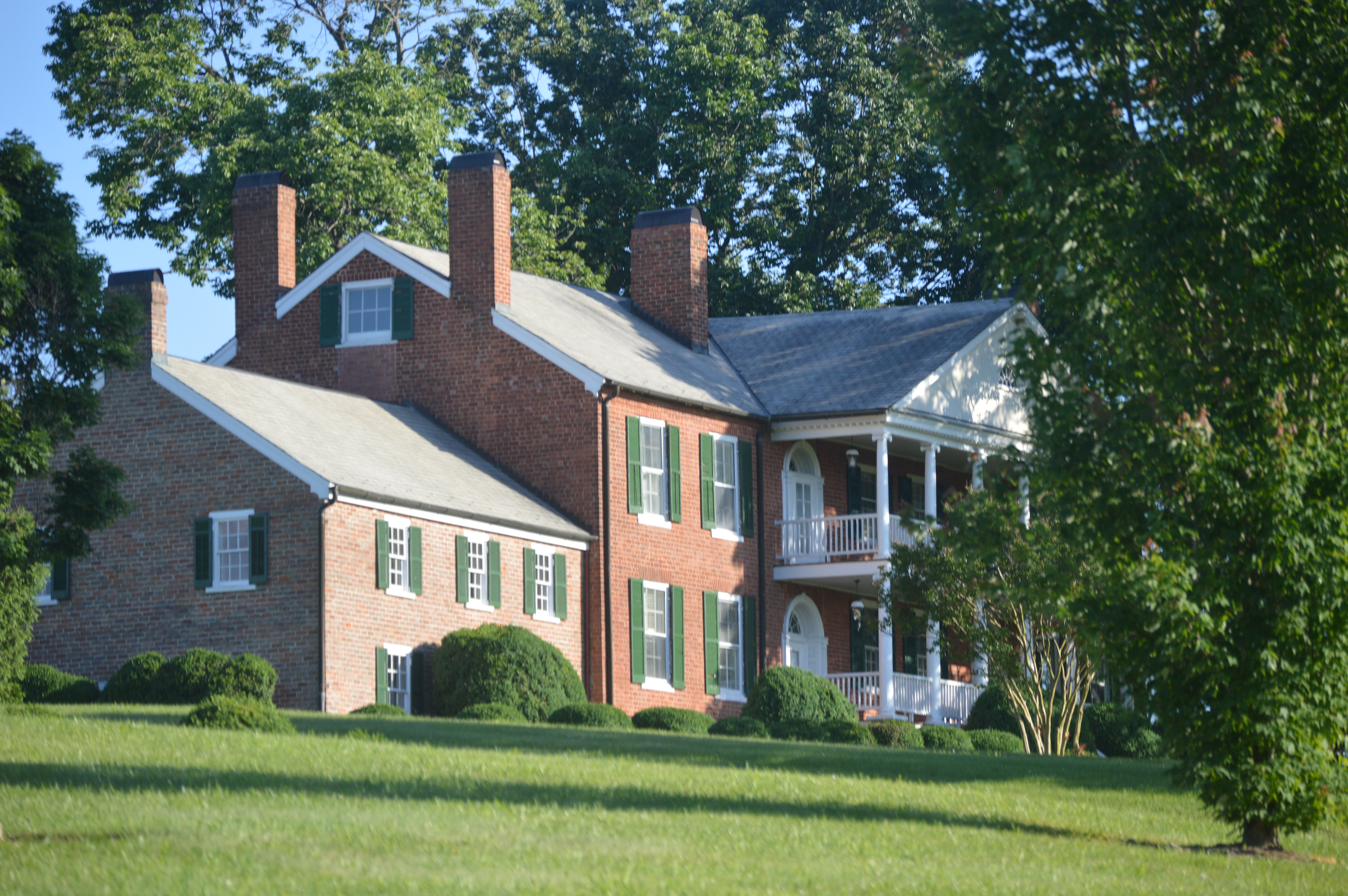 Front of Fancy Hill, located on U.S. Route 11 southwest of Lexington in Rockbridge County, Virginia, United States. Built in 1831, it is listed on the National Register of Historic Places.